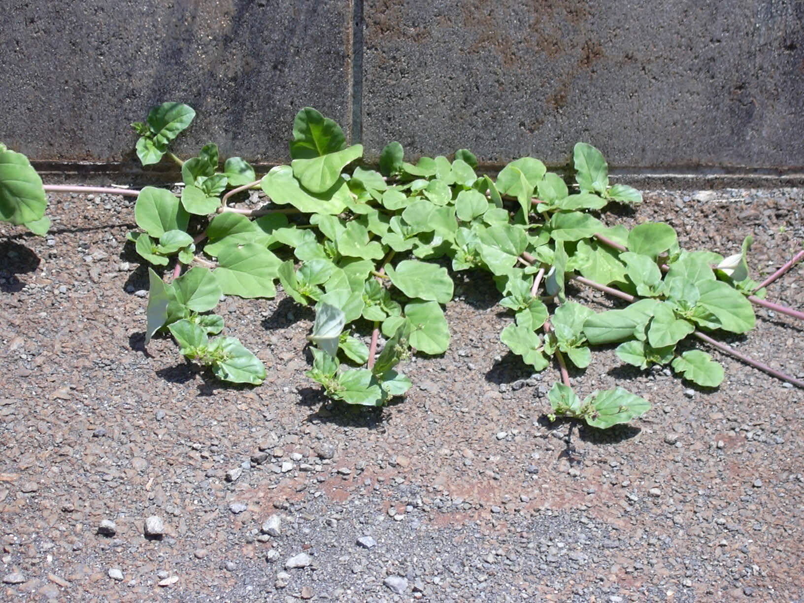 Boerhavia coccinea (habit). Location: Maui, State nursery Kahului